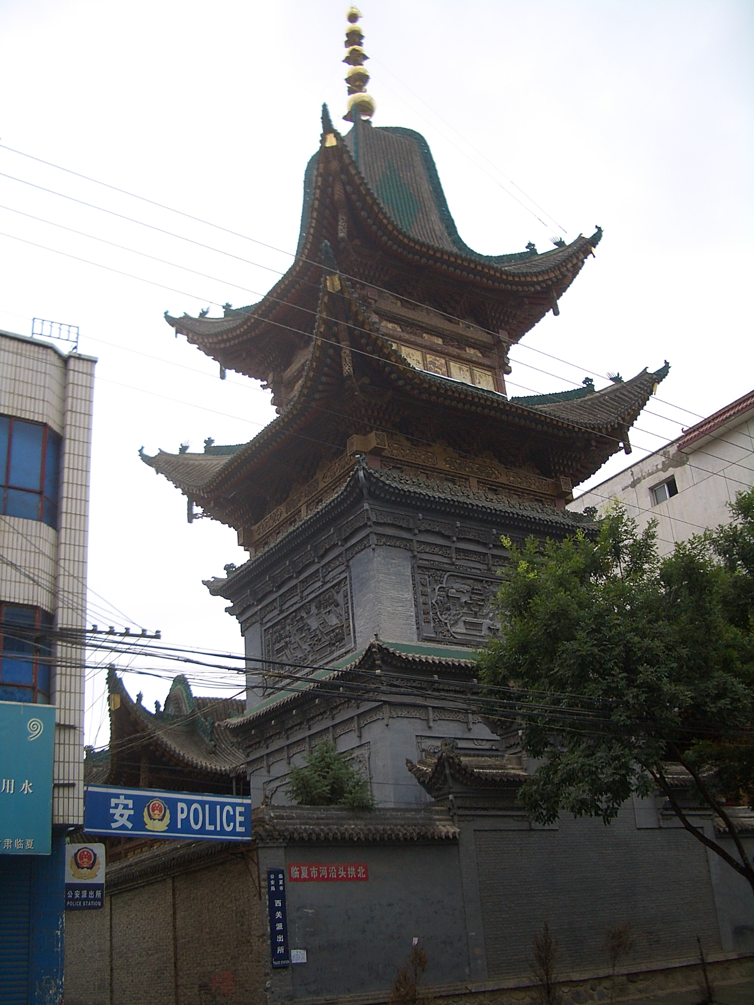 Heyantou Gongbei in Honmgyuan Xin Cun Lu in Linxia City, NW of downtown